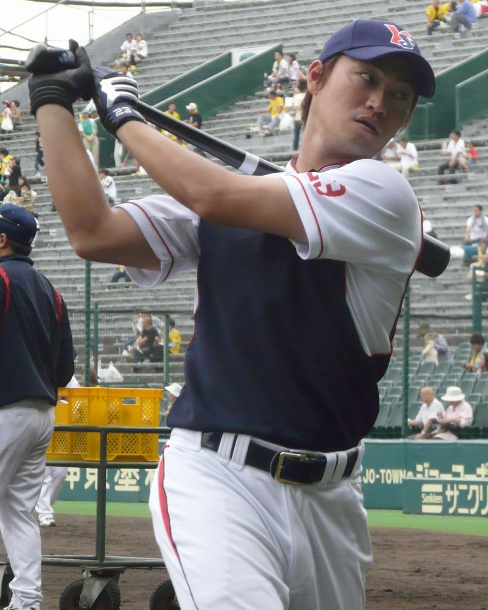 Norichika Aoki